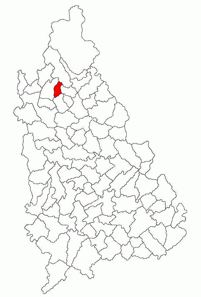 Location map of Rau Alb Commune in Dambovita County, Romania